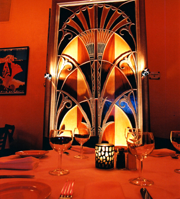 This is a replica of the elevator doors of the Chrysler Building in New York City, hand made by Brasserie Julien chef and owner Philippe Feret.